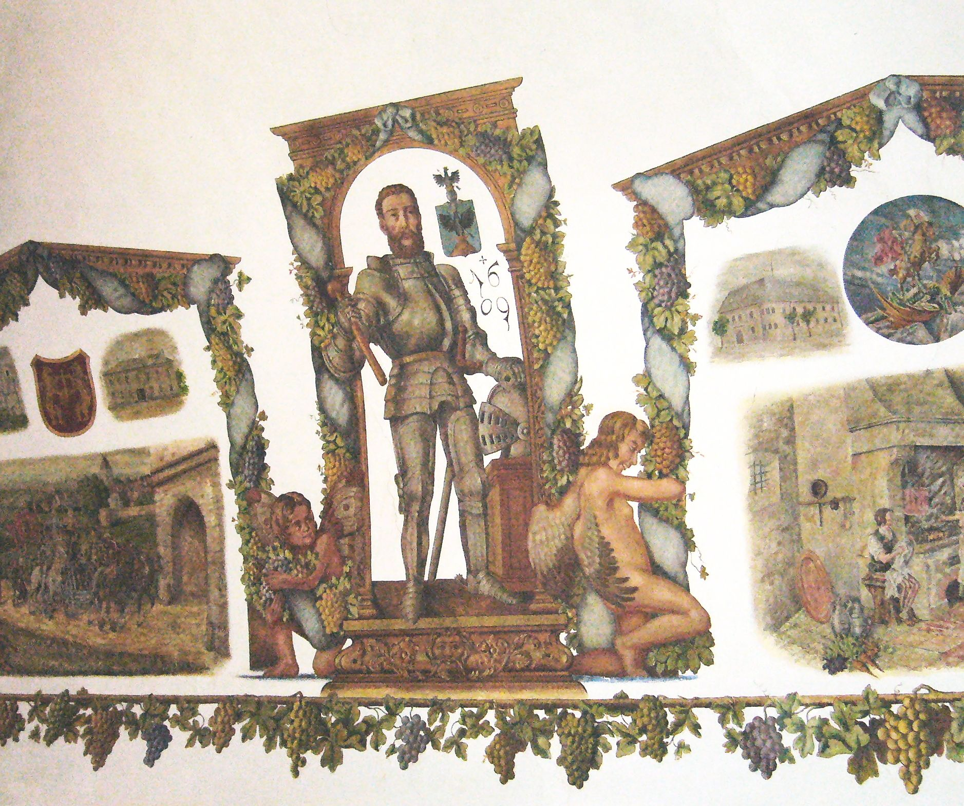 The picture of Stephen IX Illésházy (1541-1609) in the wall of salon of the Pezinok Castle in Slovakia.